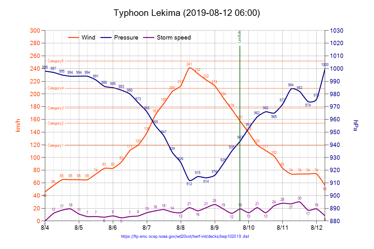 Typhoon Lekima's 1-minute maximum sustained wind, minimum pressure and storm speed